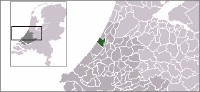 Location of Dutch municipality Katwijk in 2006. Made by me (Mtcv), PD.